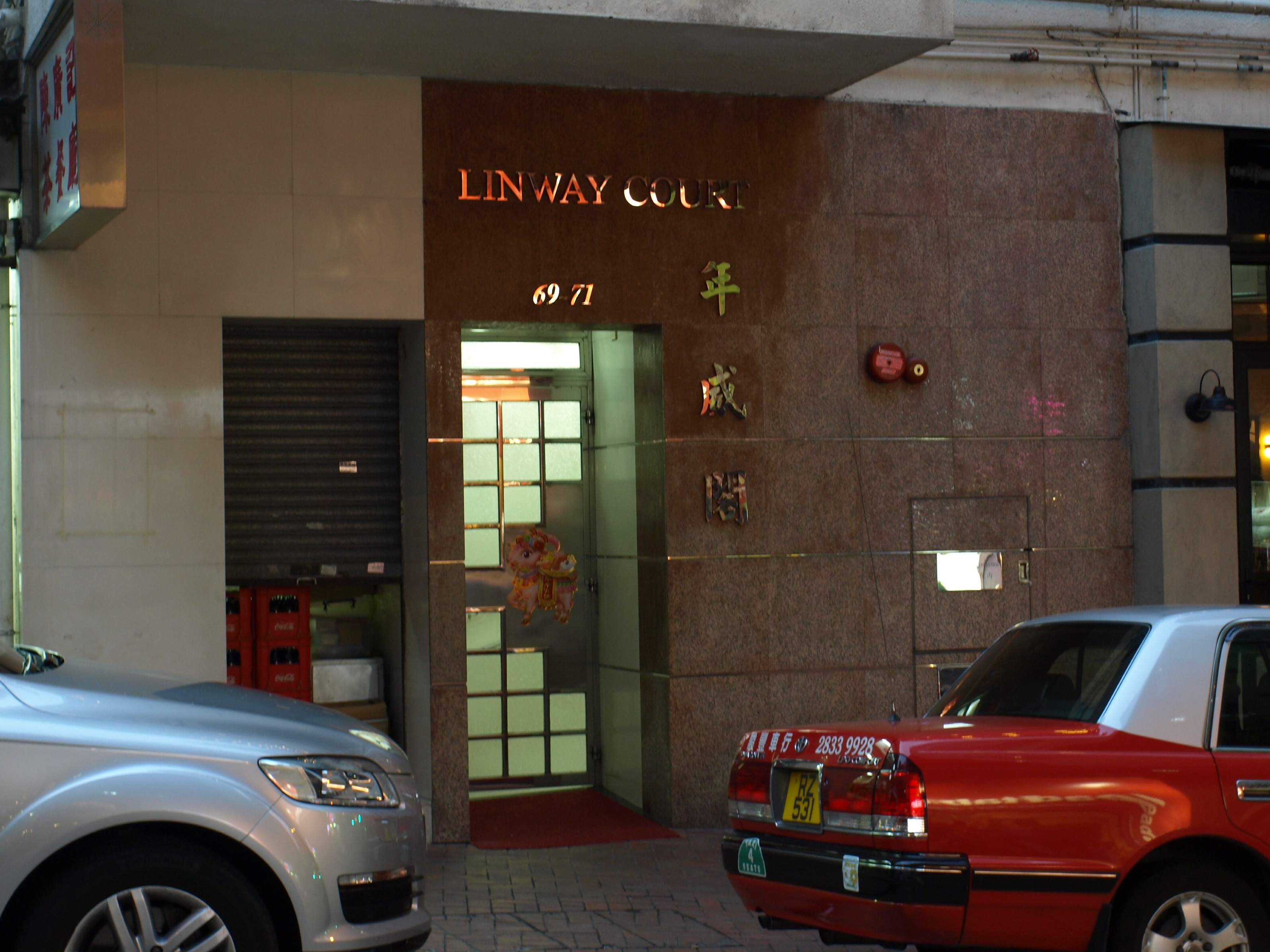 User created page with UploadWizard